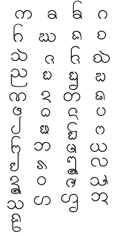 The forty-four consonants of the Khun abugida, without diacritics.